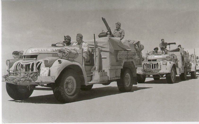 Two LRDG trucks armed with water cooled Vickers guns